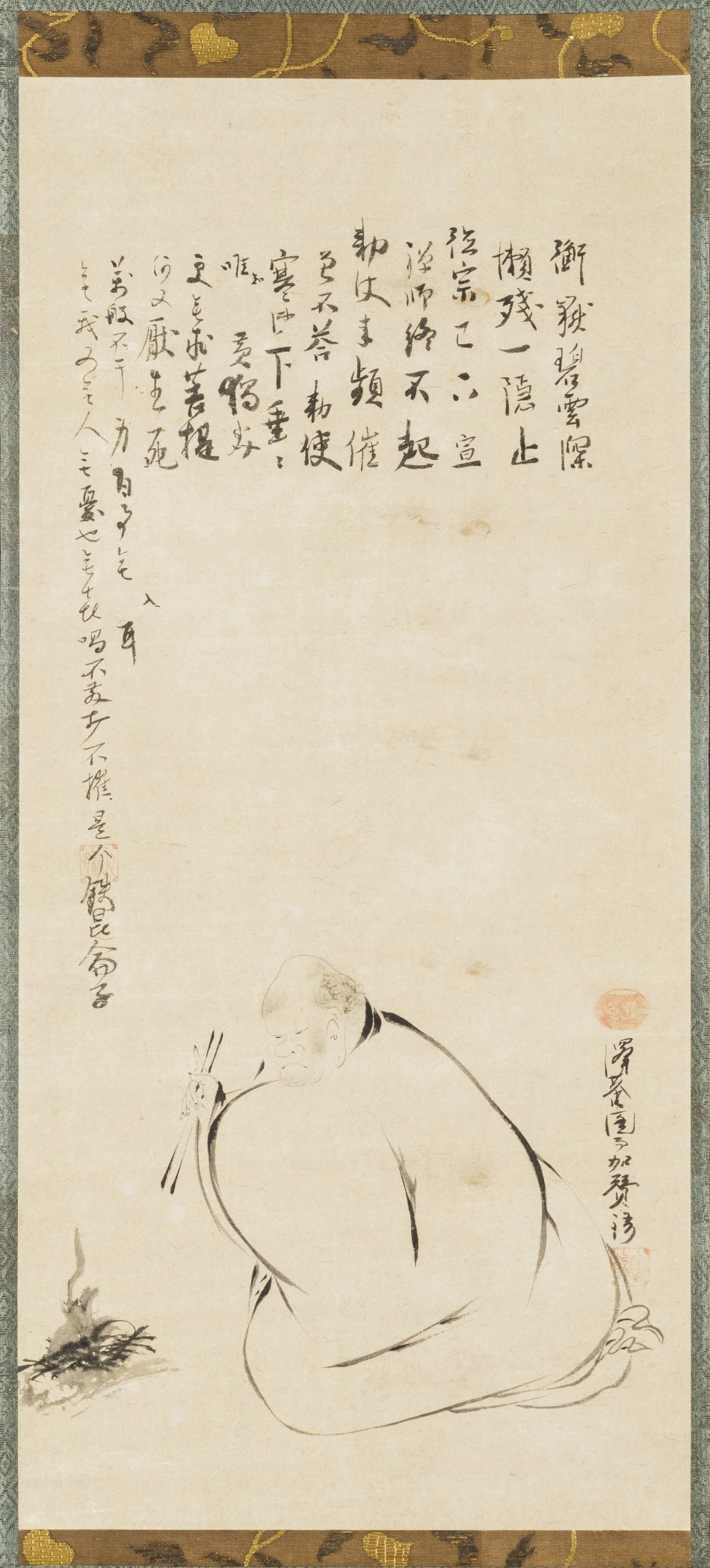 Japan, 16th-17th century Paintings; scrolls Hanging scroll; ink on paper Gift of Murray Smith (AC1997.19.1) Japanese Art